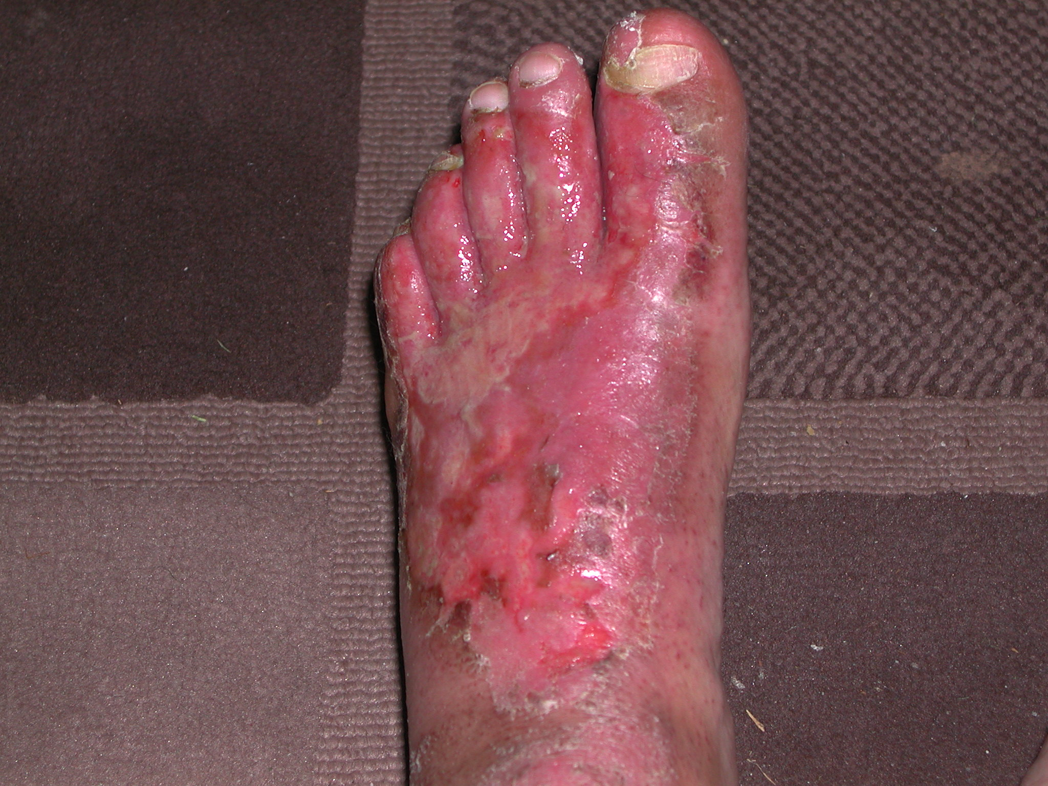 I suffer from athletes foot and after a holiday in Turkey this was the result